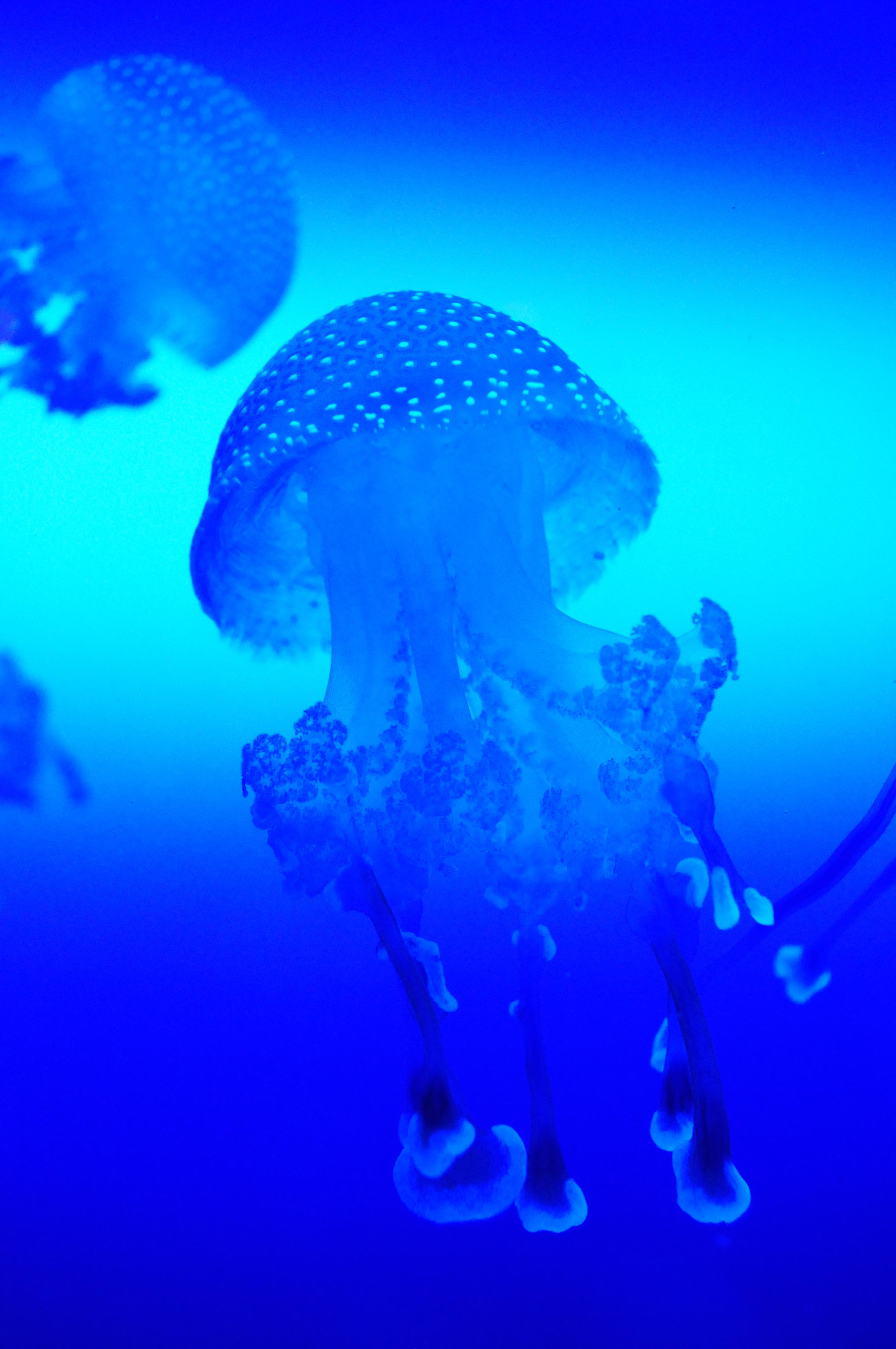 Phyllorhiza punctata, also known as the Australian spotted jellyfish or the white-spotted jellyfish at Universeum, Gothenburg, Sweden.